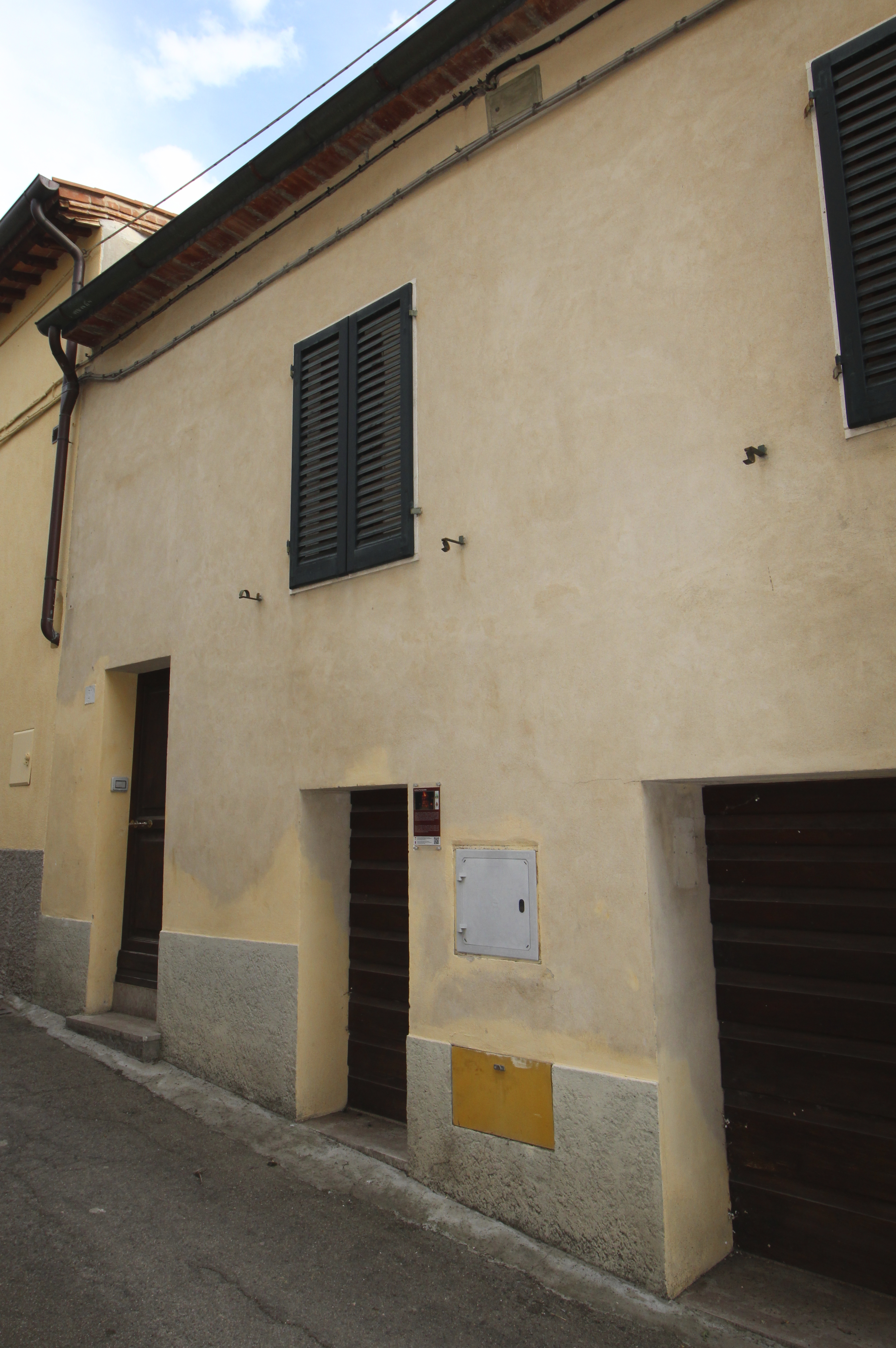 Fornace di Asciano, Via Luigi Magi, walled center of Asciano, Province of Siena, Tuscany, Italy